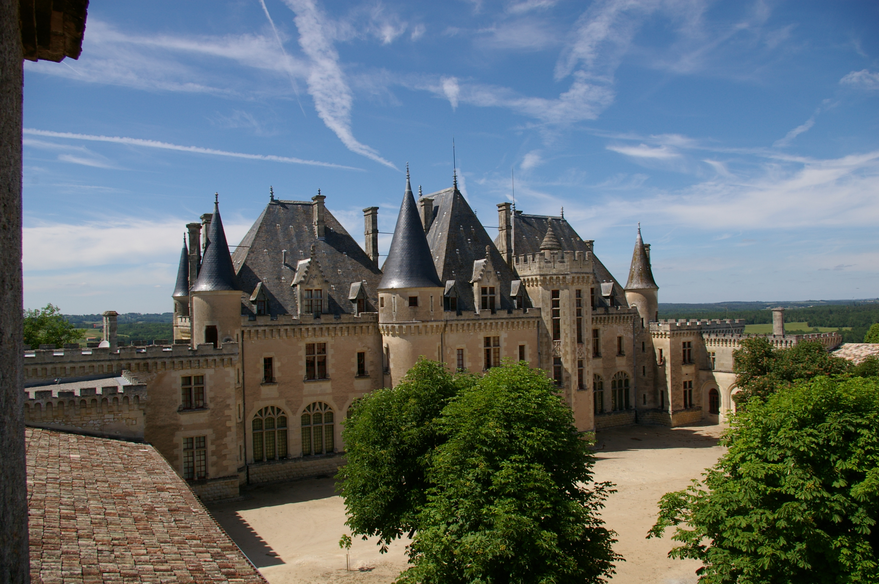 The fourteenth-century château, in which Michel de Montaigne was born and died, was burnt down in 1885. But soon after rebuilt in a similar style by the Montaign family. Michel Eyquem de Montaigne (February 28, 1533 – September 13, 1592) was an influential French Renaissance writer, generally considered to be the inventor of the personal essay. Michel de Montaigne Another view: Flickr